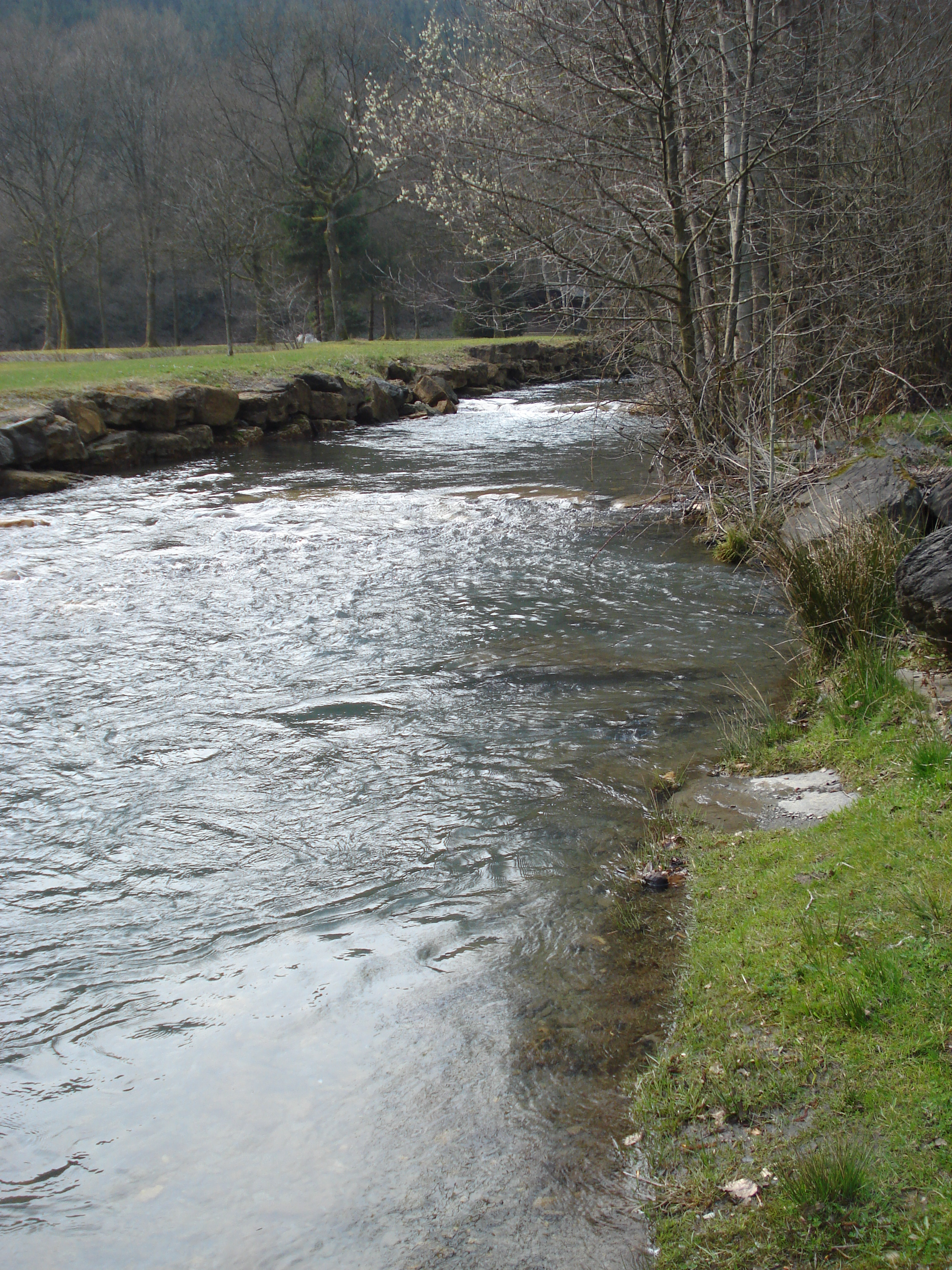 Les Hautes-Rivières (Ardennes) Ruisseau de St.Jean en forêt